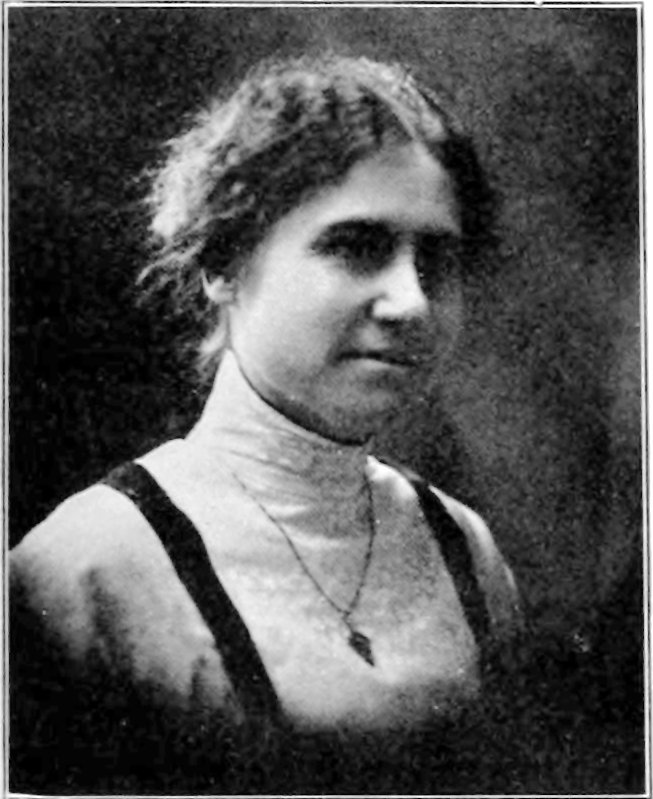 Alice Louise Reynolds faculty photo from the 1914 Banyan (Brigham Young University yearbook)